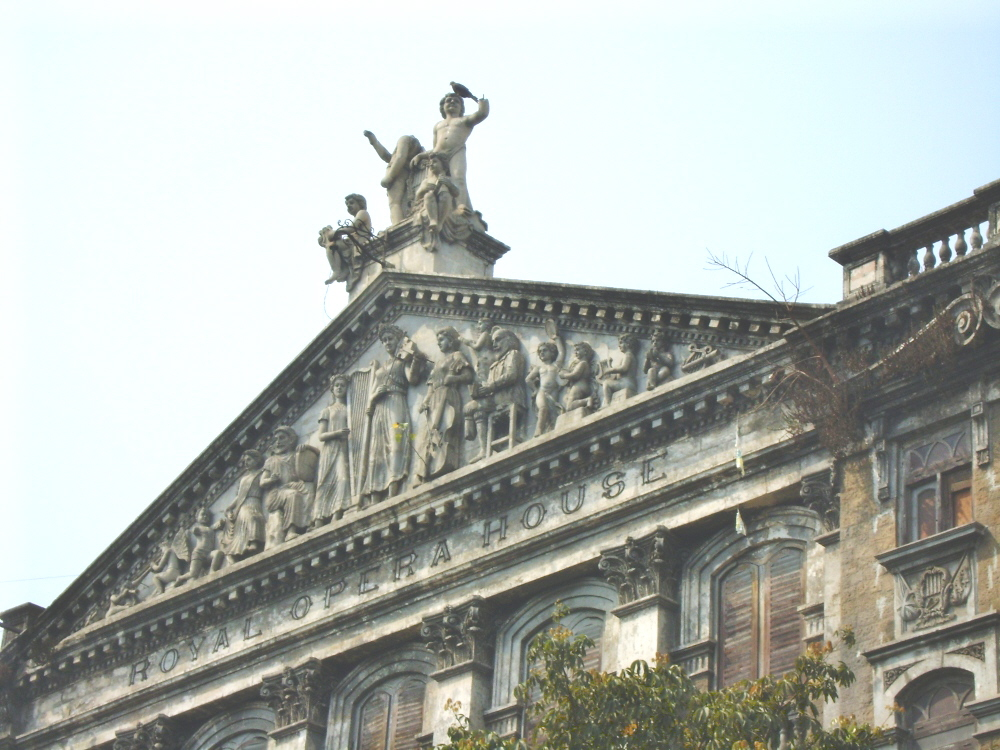 This is a picture of the Royal Opera House in Mumbai. It's in shambles today.